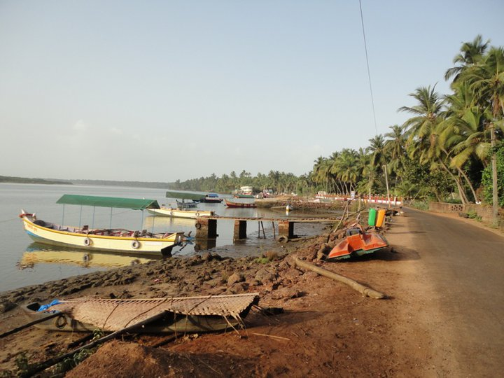 Tarkarli Photo by Rohit Keluskar